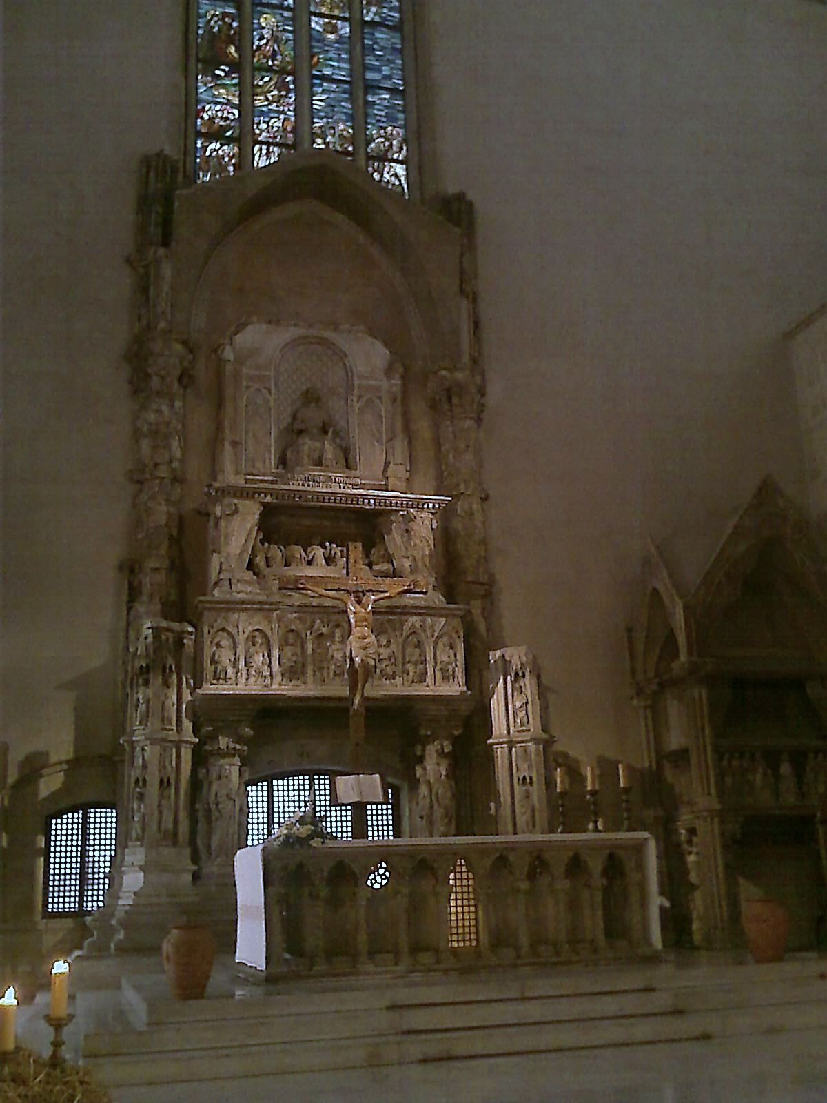 Robert of Anjou's grave in Santa Chiara, a religious complex in Naples